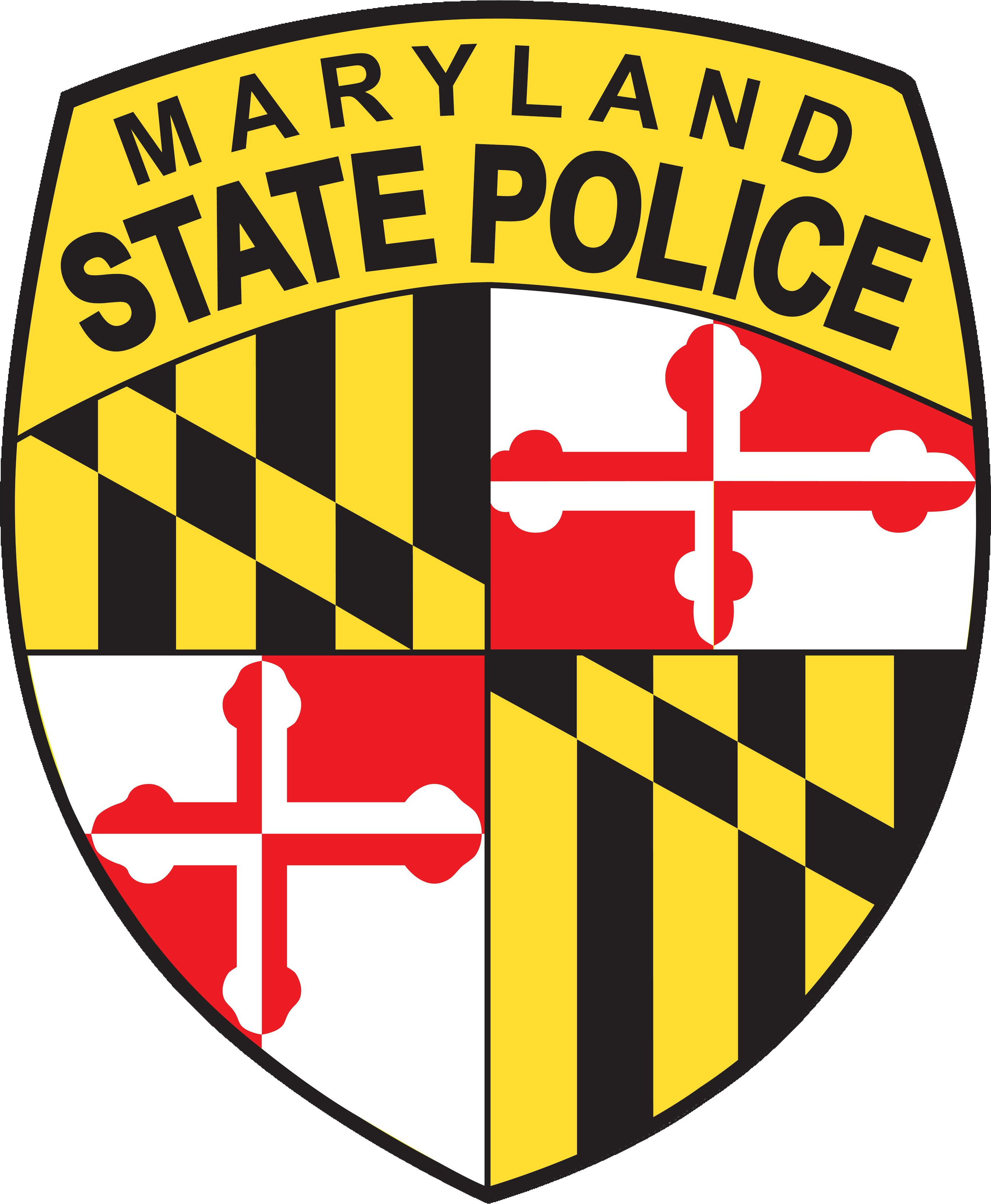 Logo of the Maryland State Police